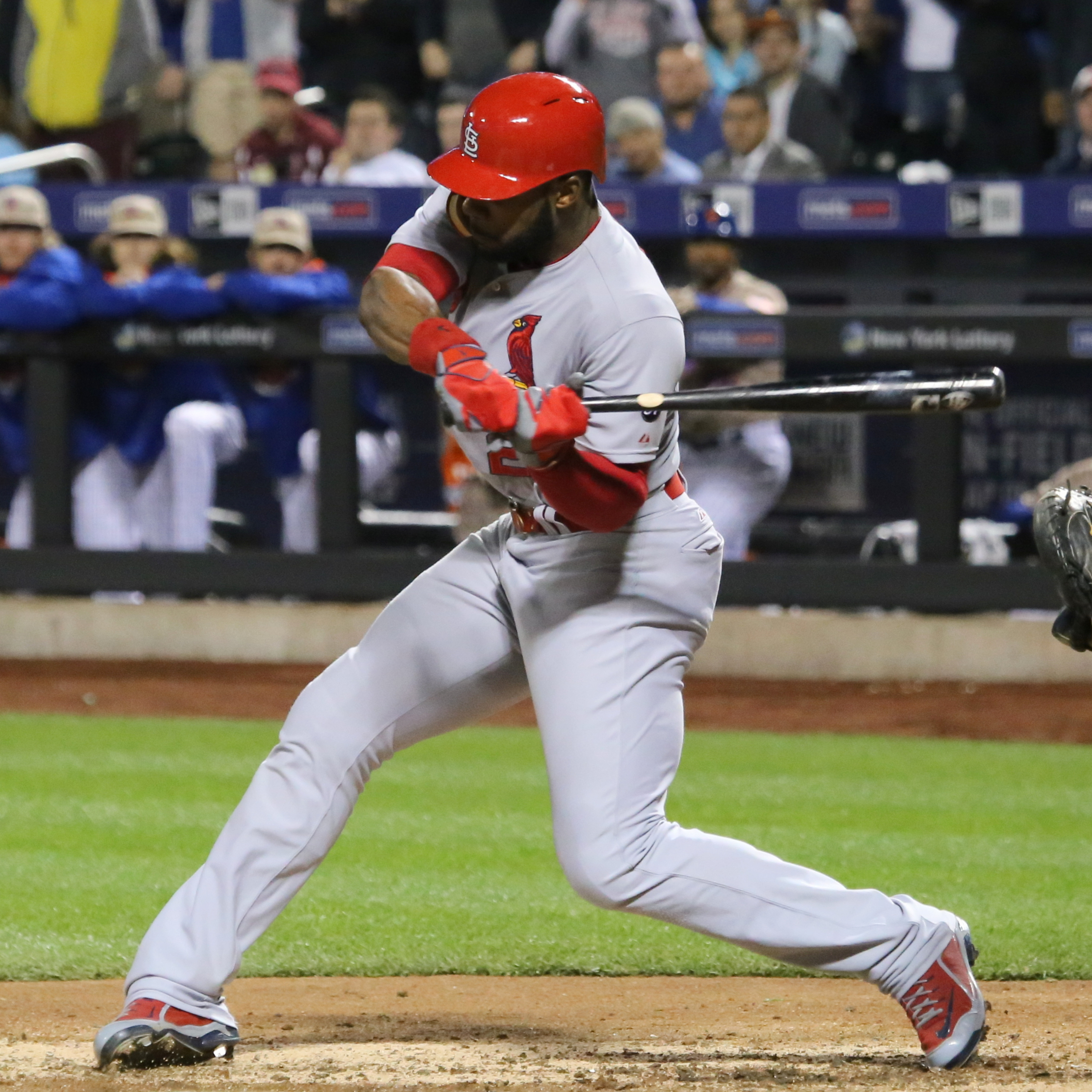 Jason Heyward